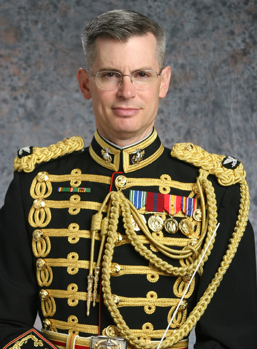 Twenty-seventh Director of “The President’s Own” United States Marine Band Director, Colonel Michael J. Colburn, joined the band as a euphonium player in 1987 and was appointed Director July, 17 2004.